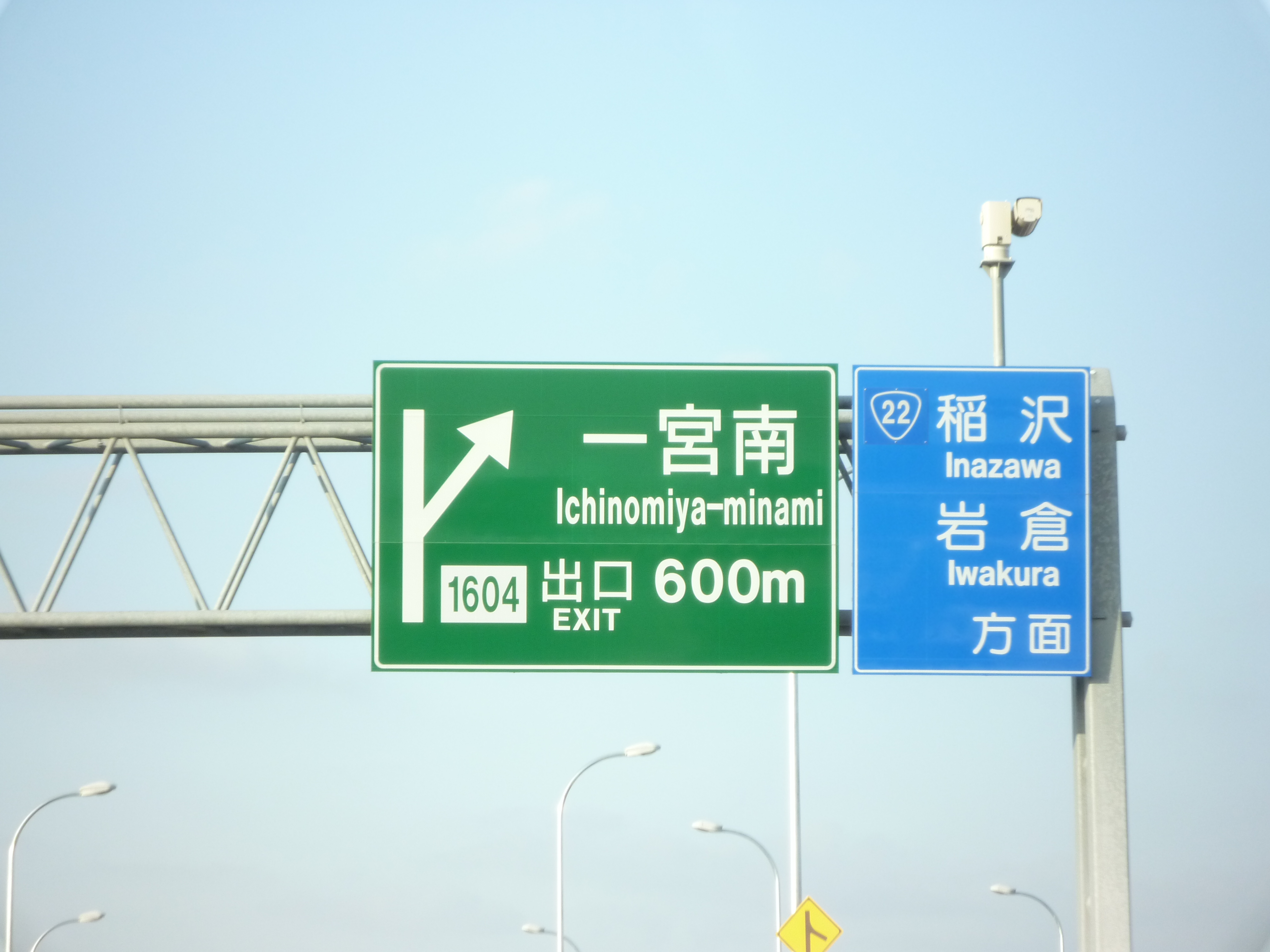 Sign for Ichinomiya-minami Exit on the Nagoya Expressway Route 16